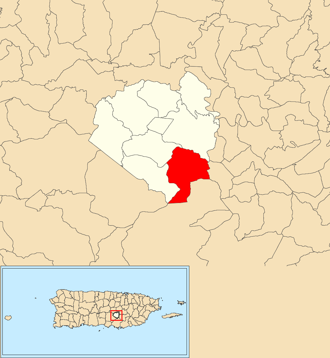 Cuyón, Aibonito, Puerto Rico locator map